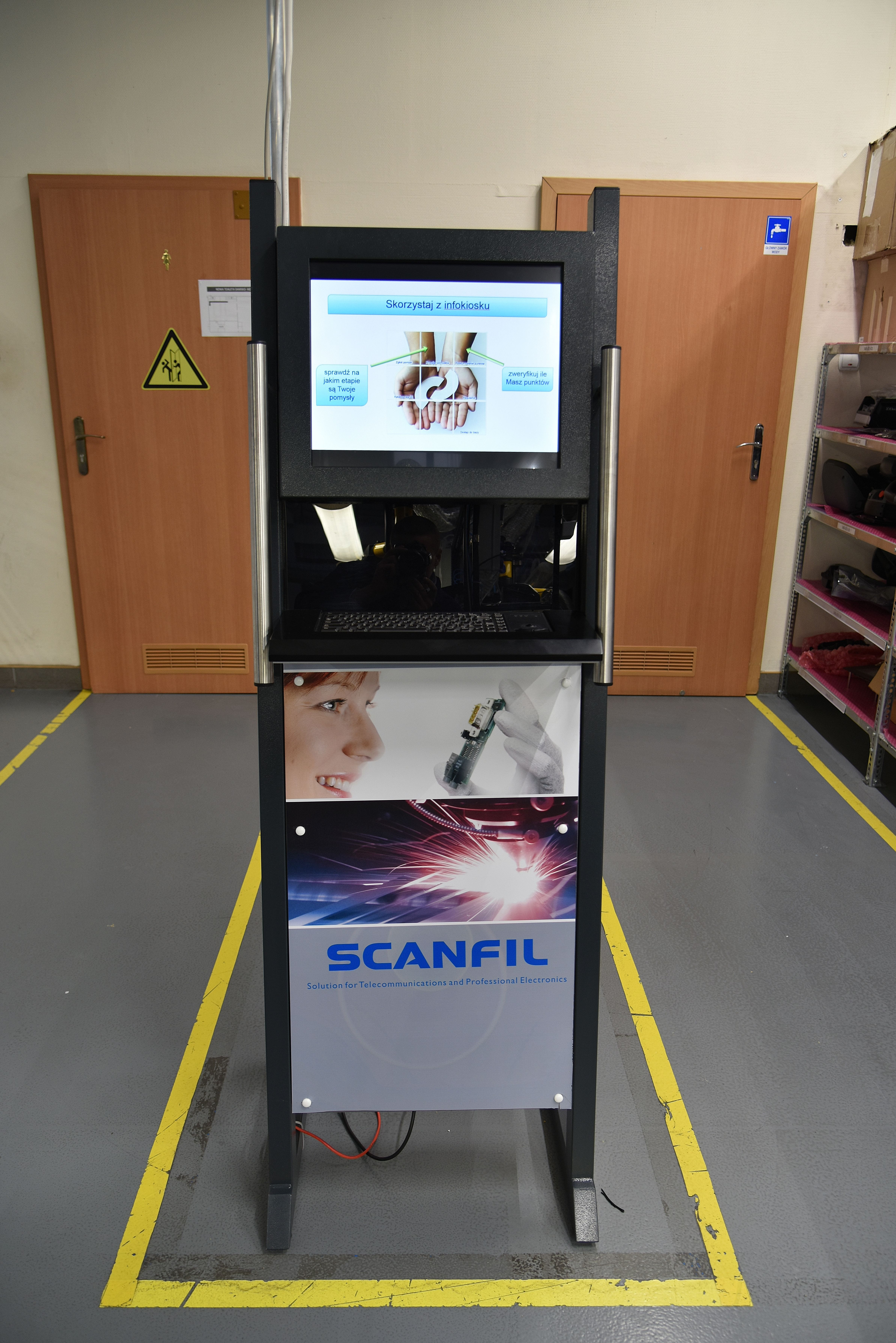 Kaizen interactive kiosk/suggestion box at the Scanfil Poland factory in Sieradz